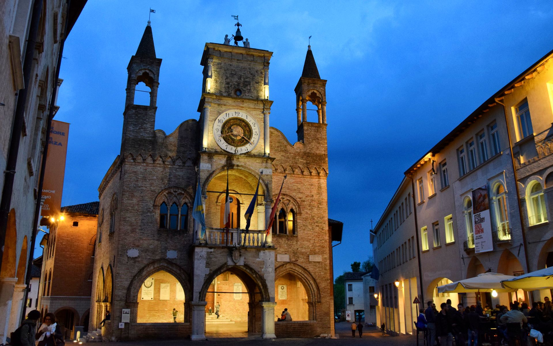 Pordenone Town Hall at Sunset - 2016